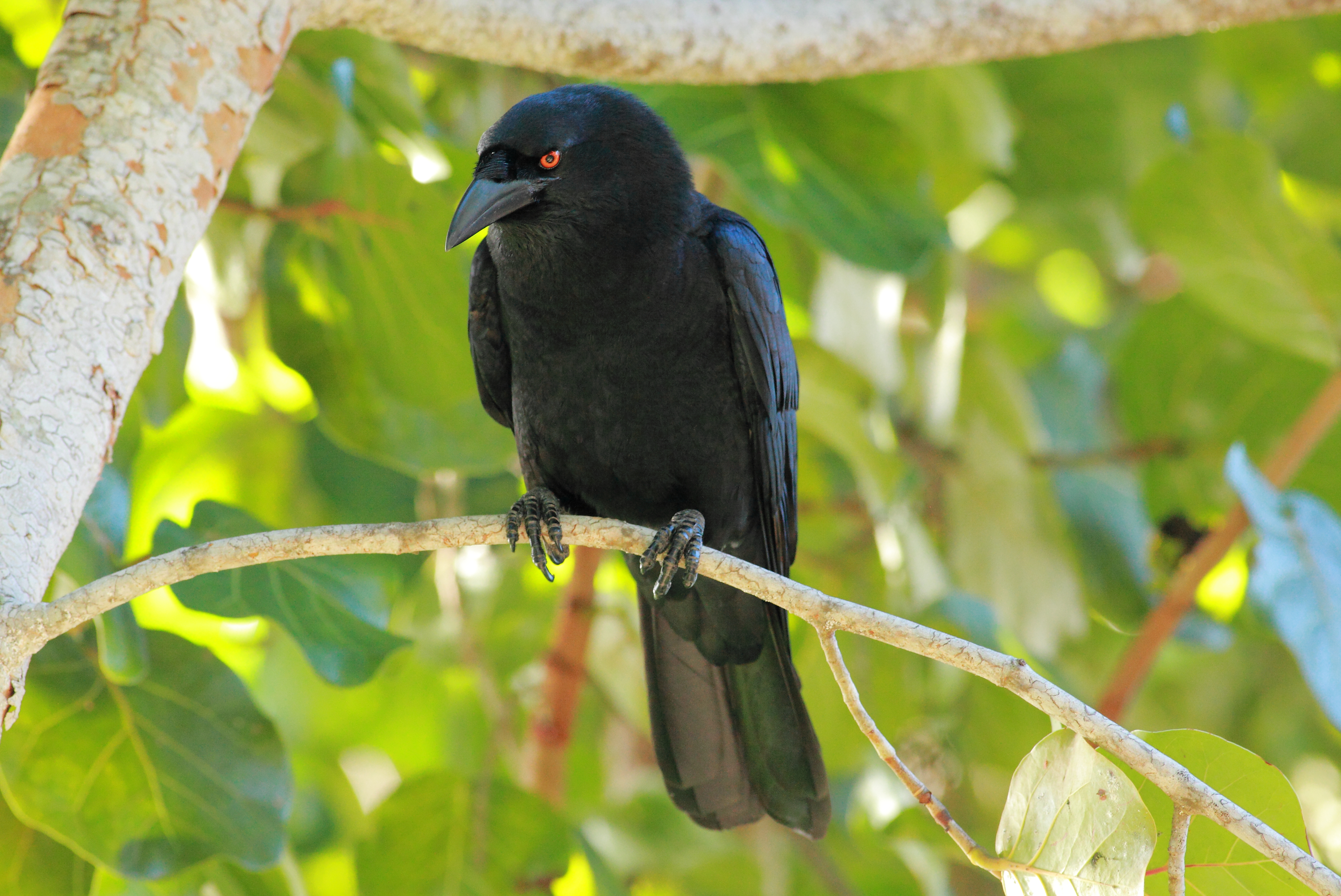 White-necked crow (Corvus leucognaphalus). Dominican Republic, near La Romana.